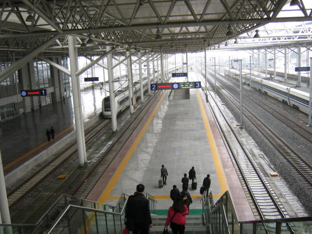 Wenzhounan (Wenzhou South) Railway Station